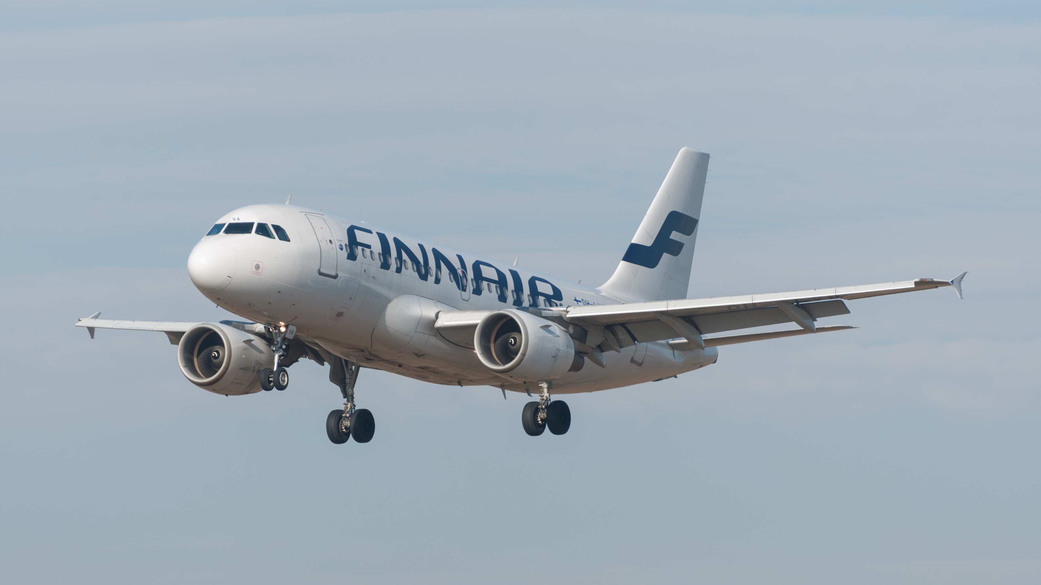 Switzerland, Canton of Zürich, spotting on "spotter hill" at Zurich International Airport